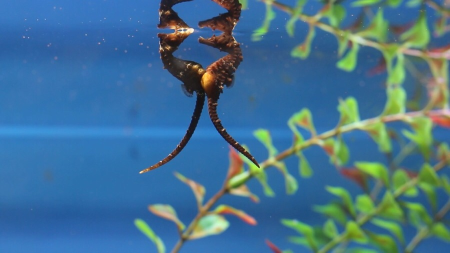 Mating behaviour of Korean seahorse (Hippocampus haema)